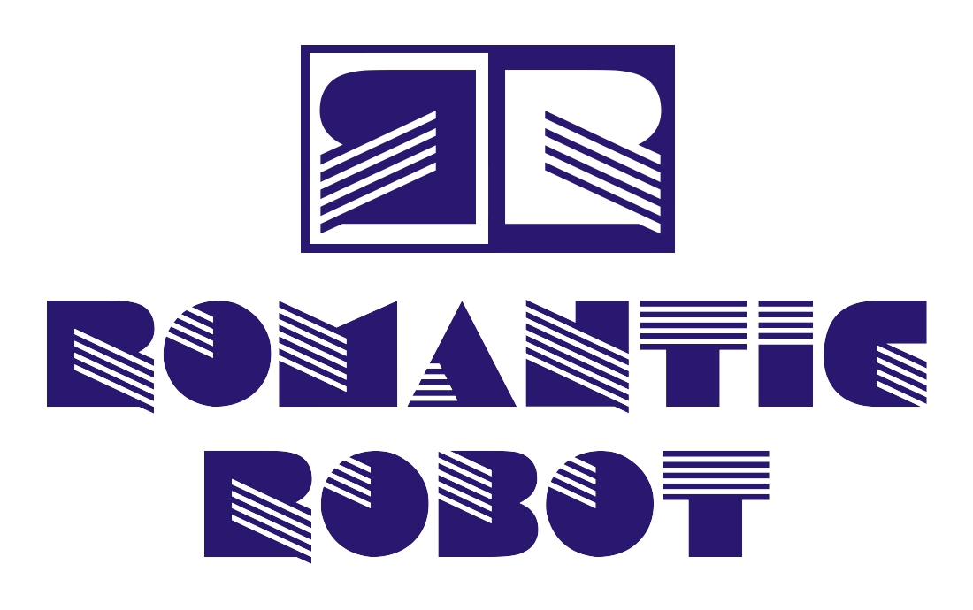 Romantic Robot Logo White